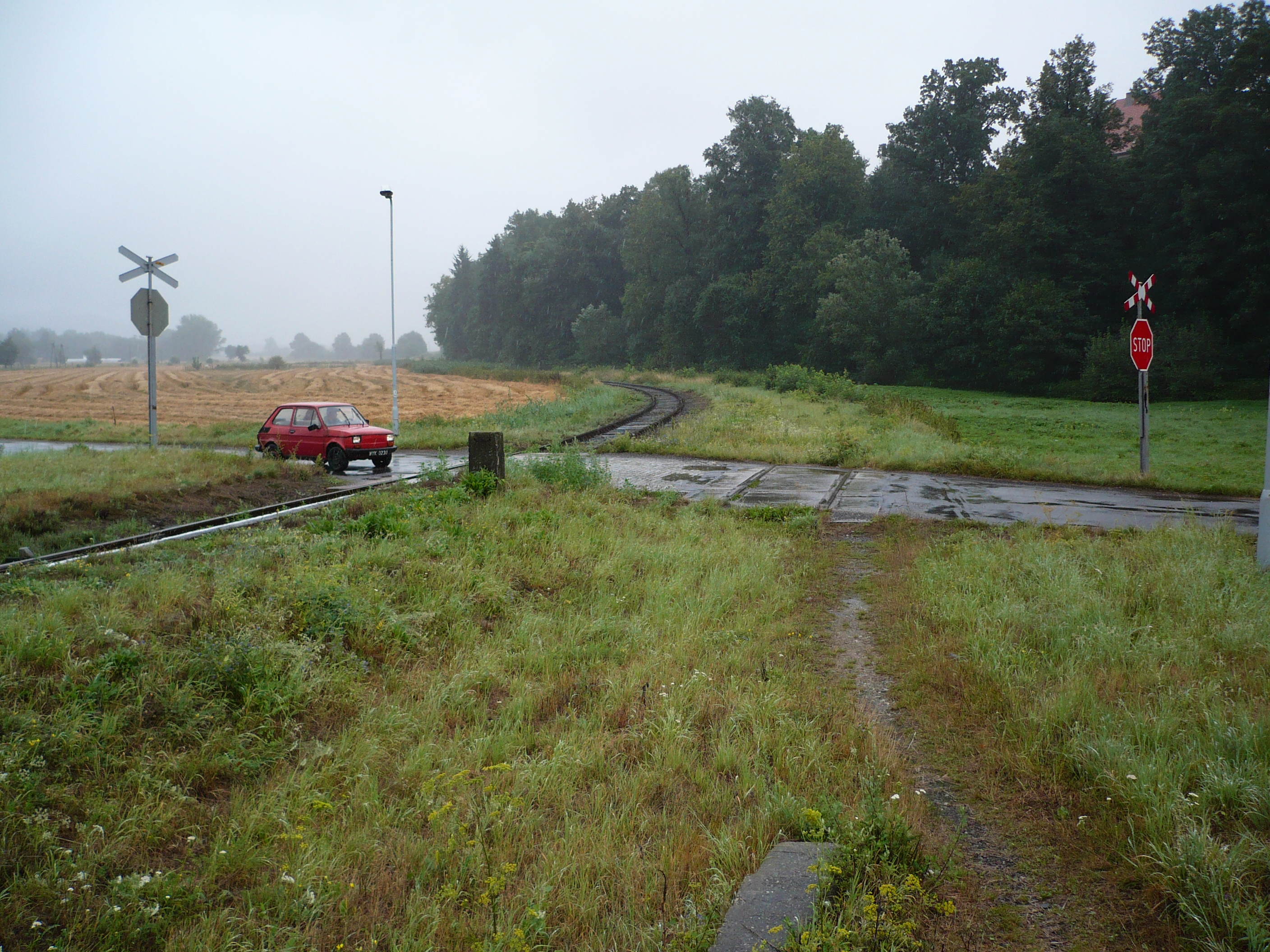 Level crossing at Krosnowice Kłodzkie (photographed from the and of former platform)